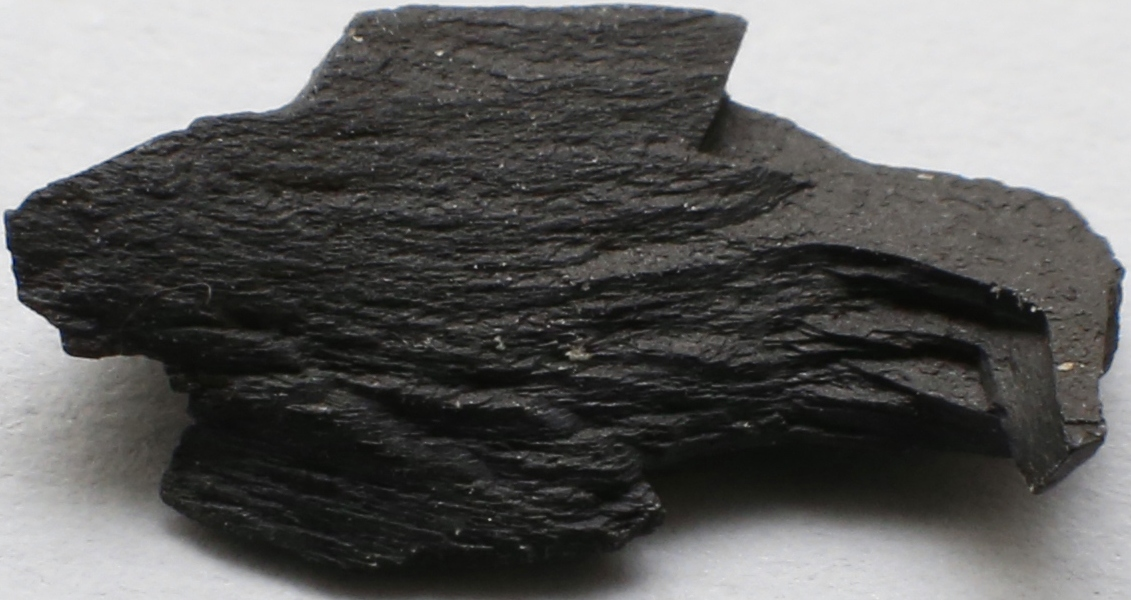 Photo of a small (about 15mm long) sample of jet